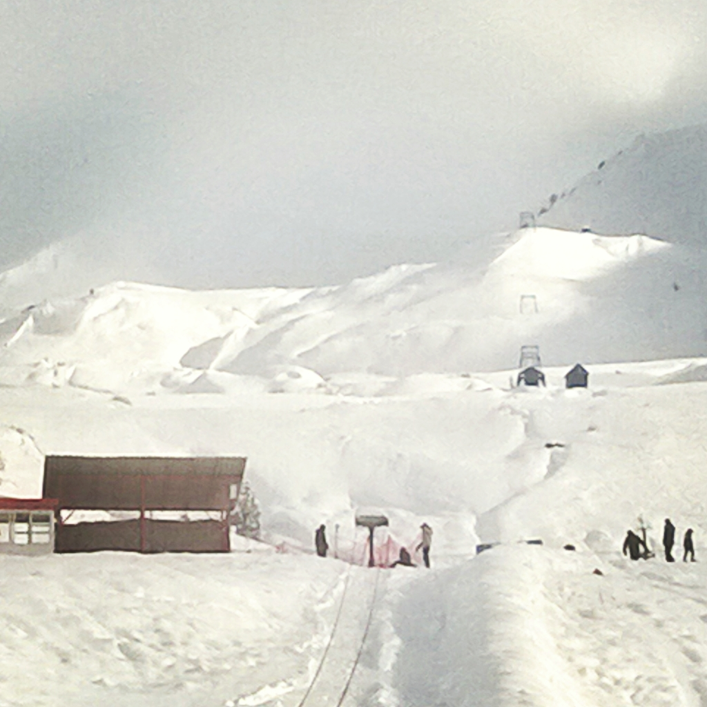 The new kid park